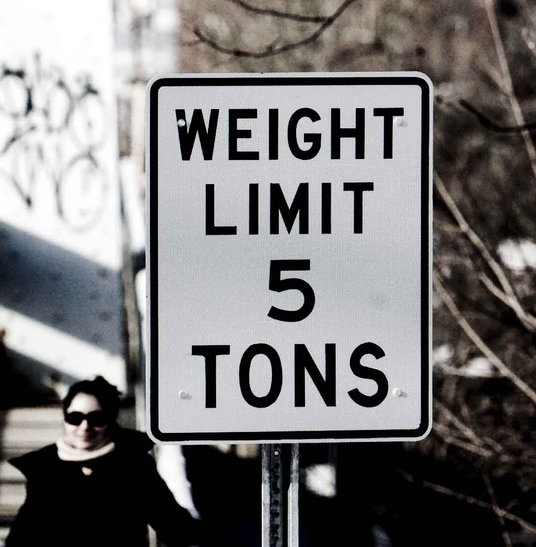 sign from port ewen approach to wurts street bridge